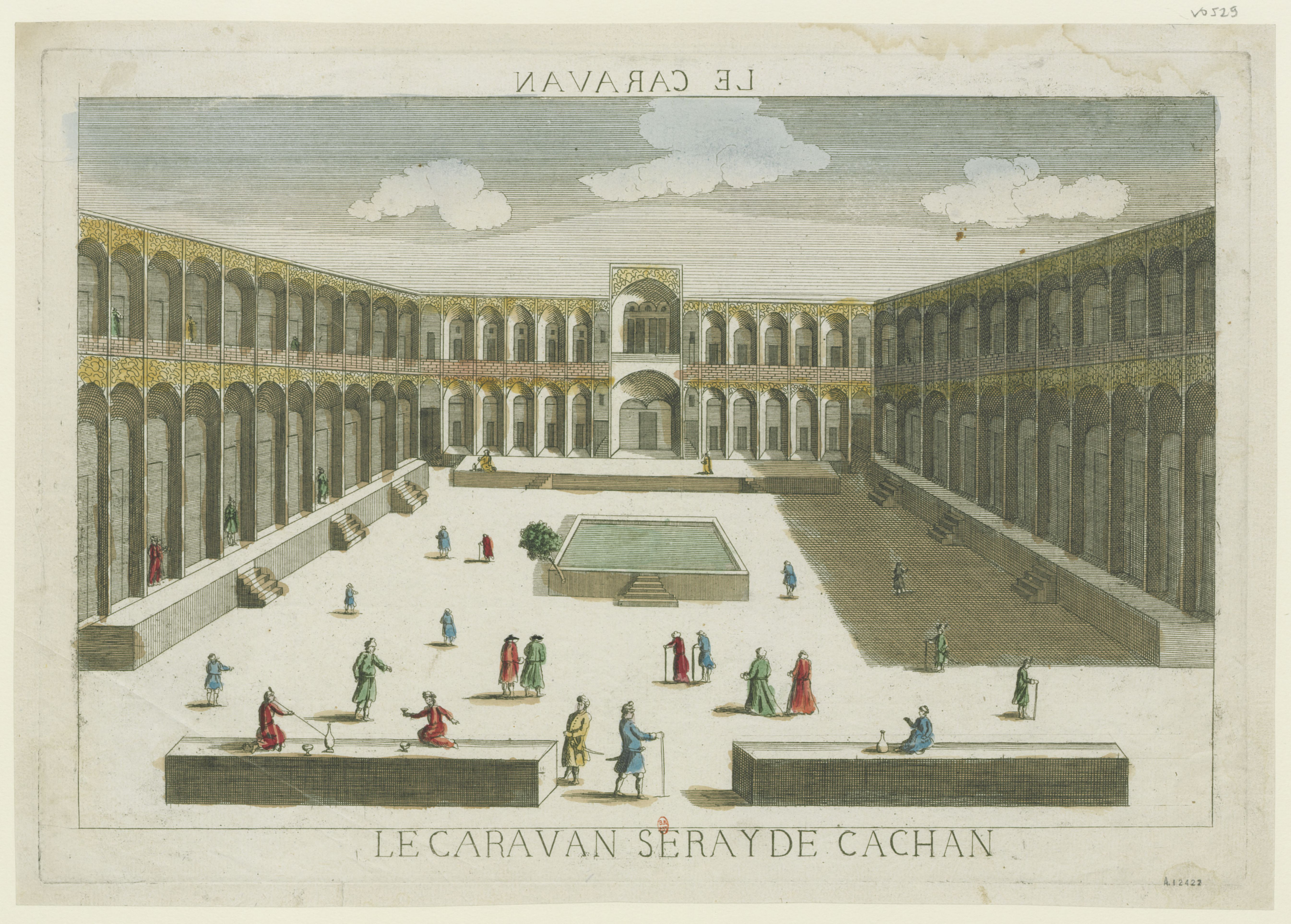 Le Caravan Seray de Cachan